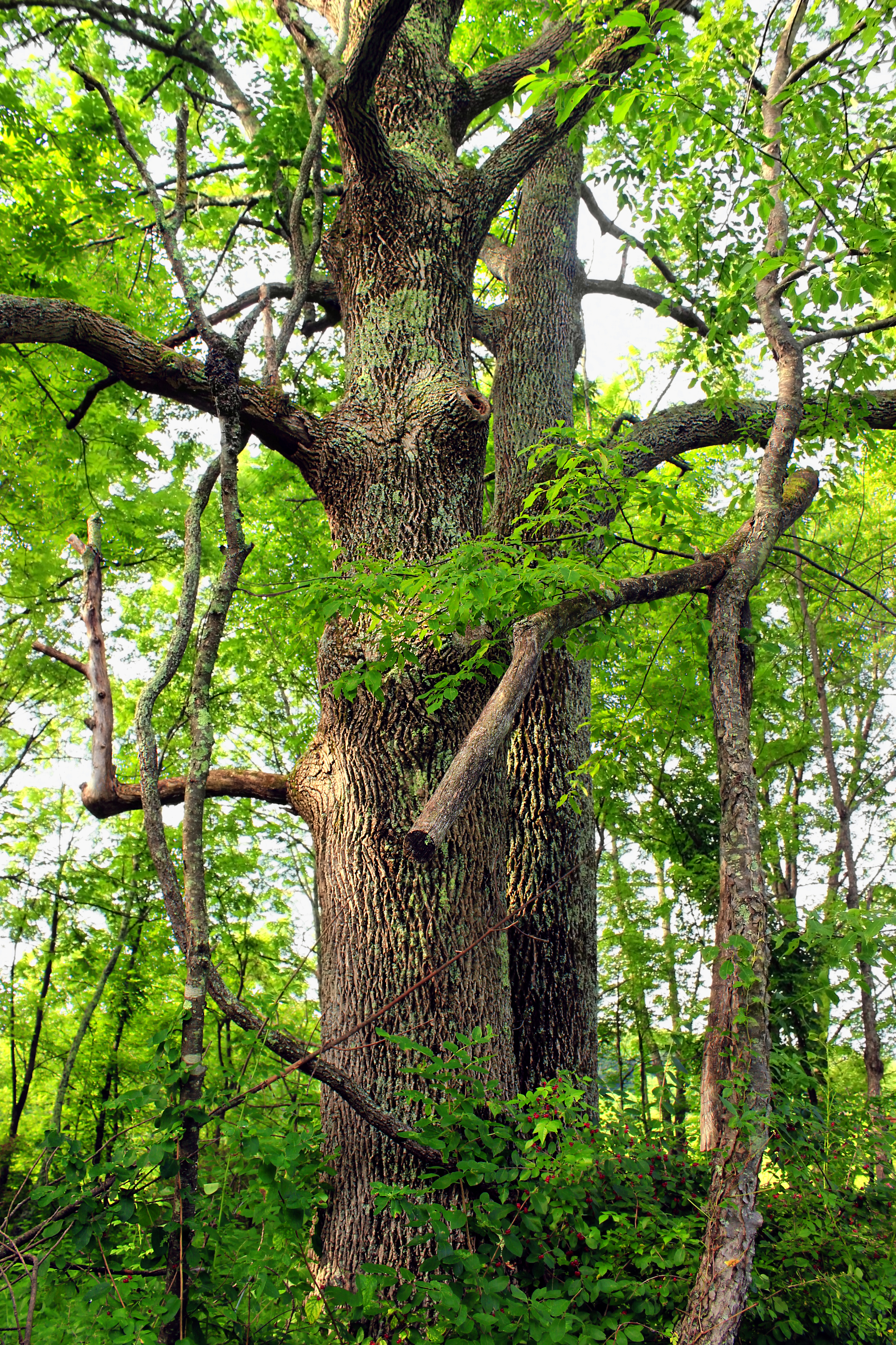 Large, old, side-by-side White Ash Fraxinus americana, Glacier Pools Preserve, Lycoming County.